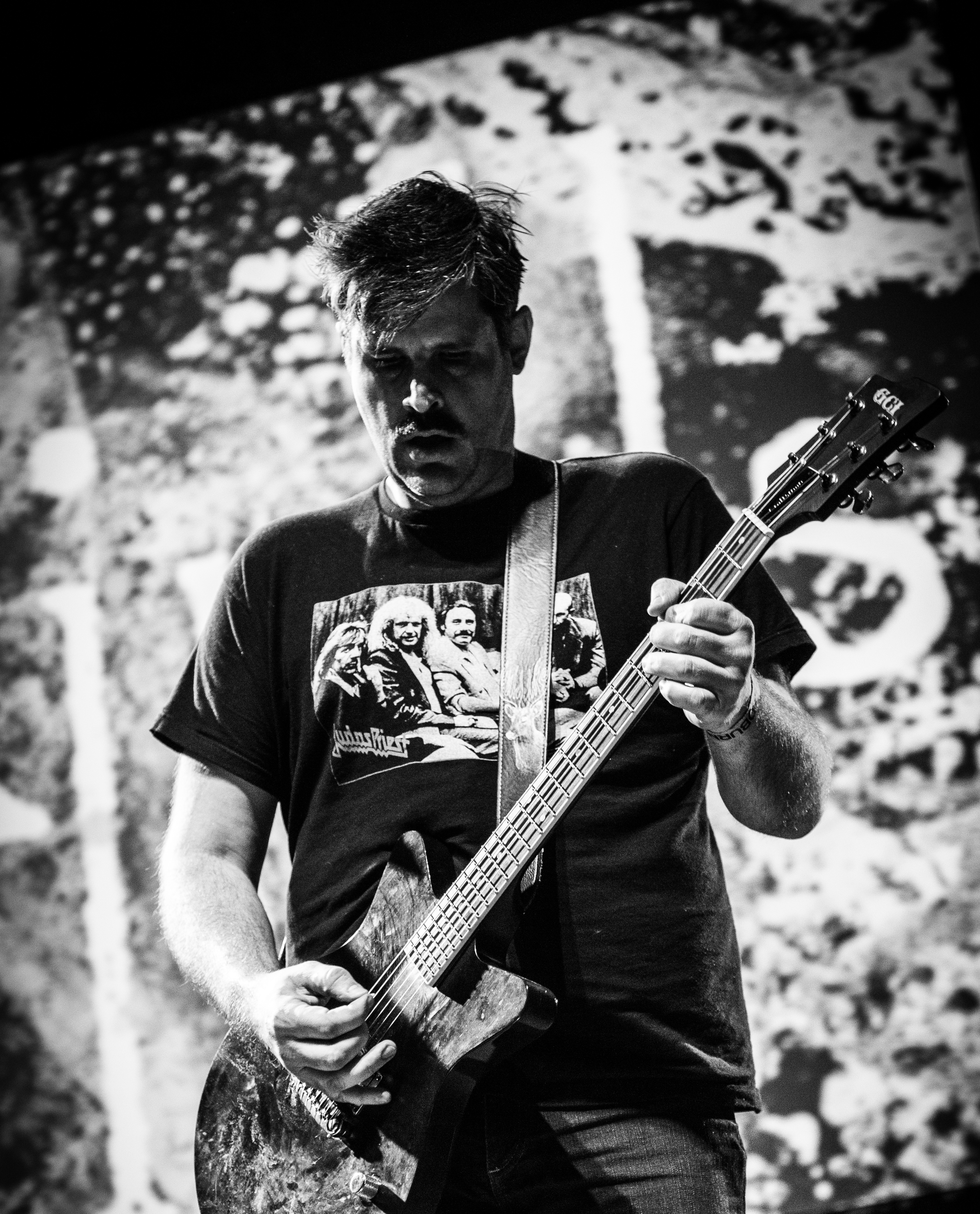 Converge performing live at Roadburn Festival 2018